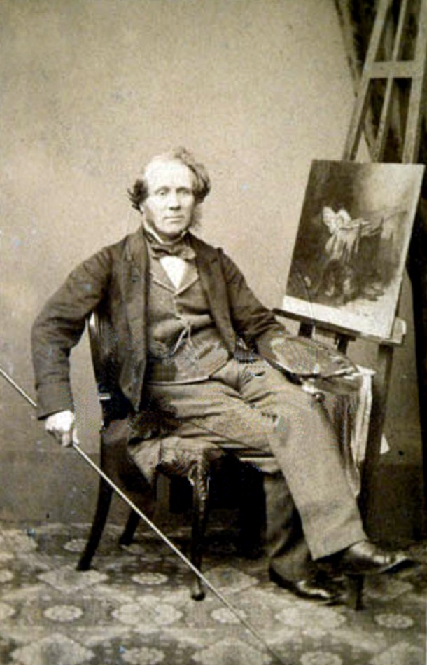 Photograph of William Powell Frith (1819-1909), English Royal Academy painter